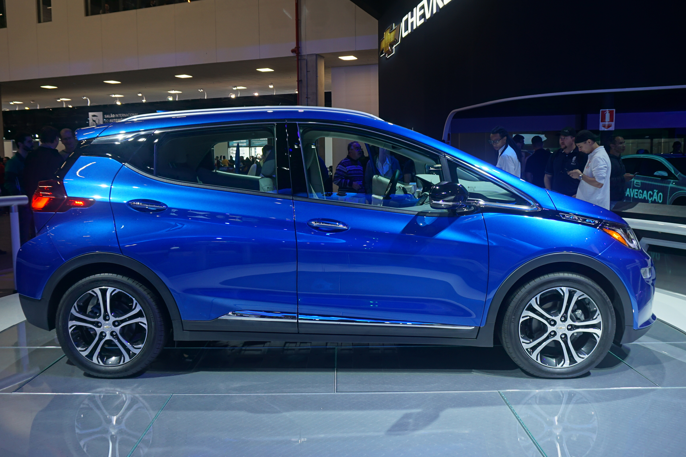 Lateral view of the 2017 Chevrolet Bolt EV at the Salão Internacional do Automóvel 2016 São Paulo, Brazil